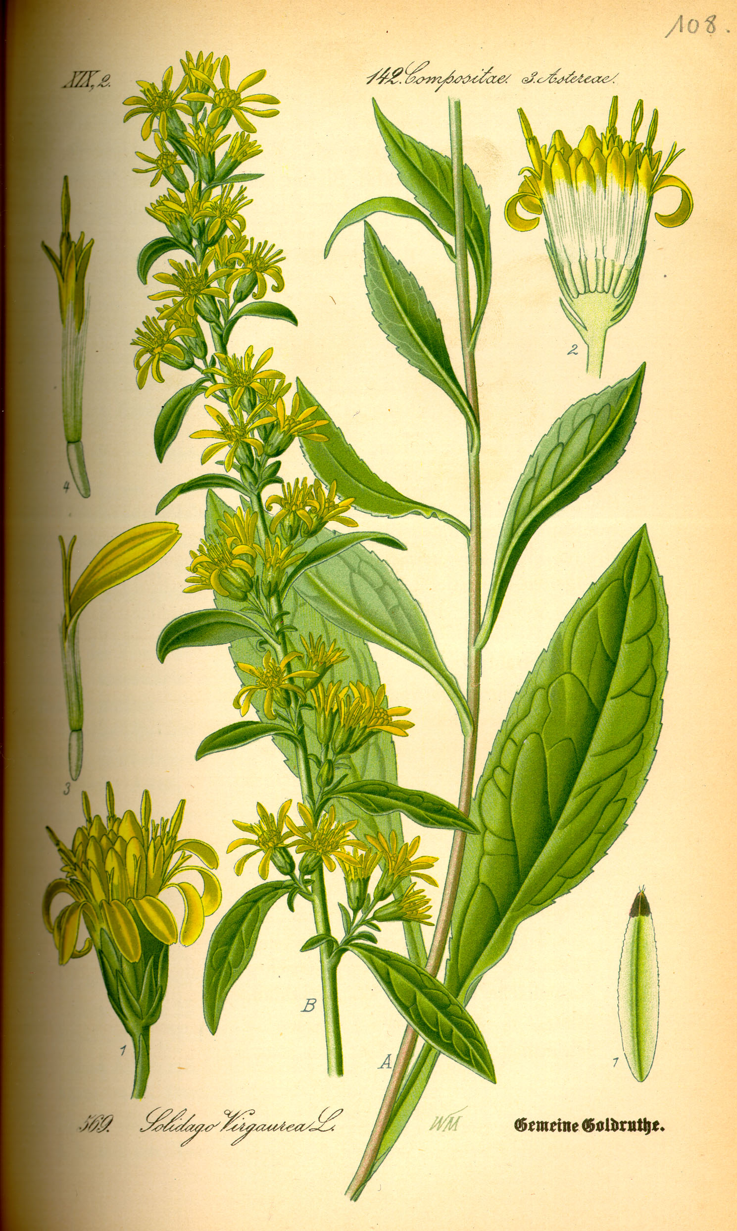 Name Solidago virgaurea Family Asteraceae